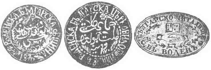 Seals of Voden Bulgarian Municipality